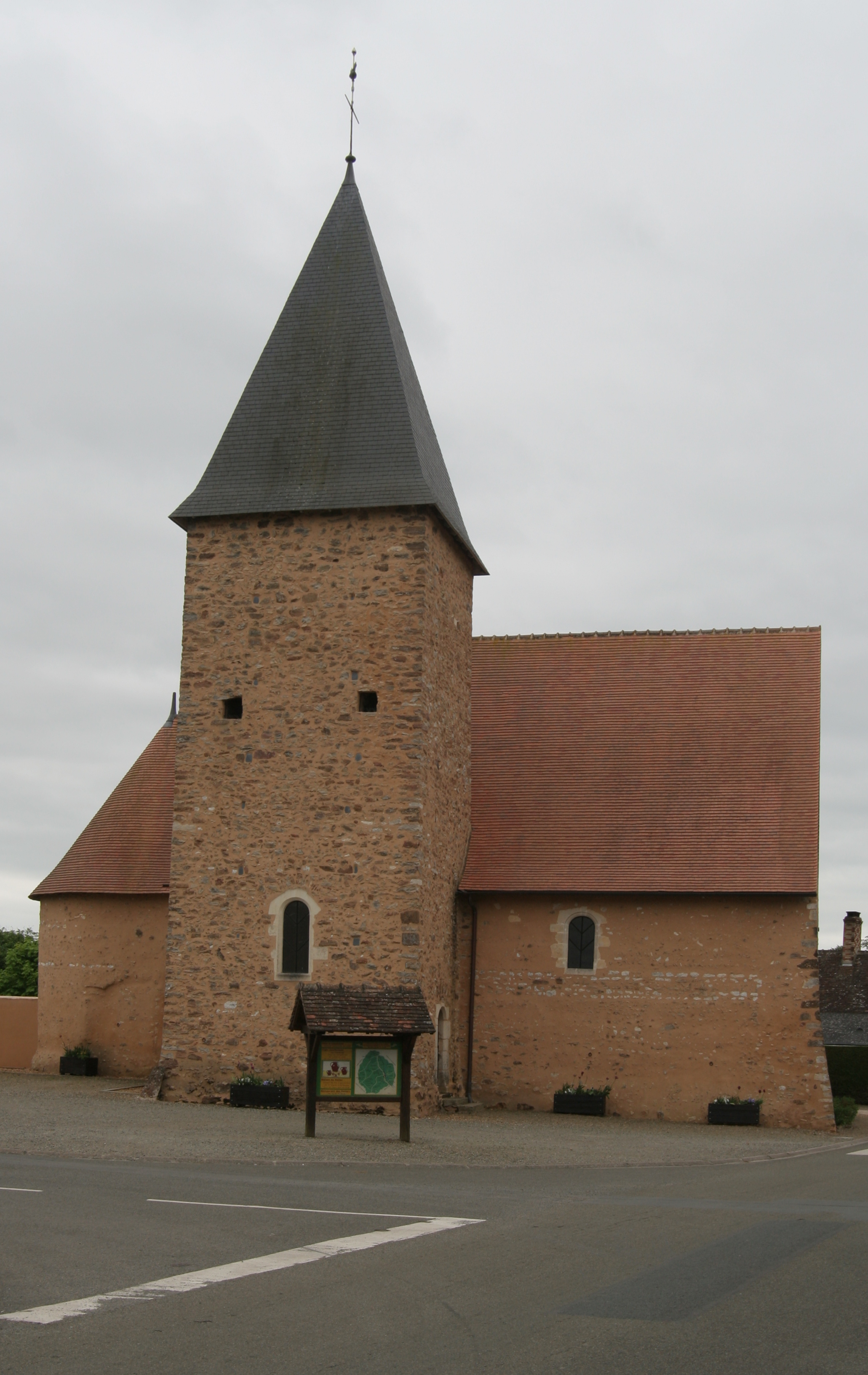 Church of Prévelles.